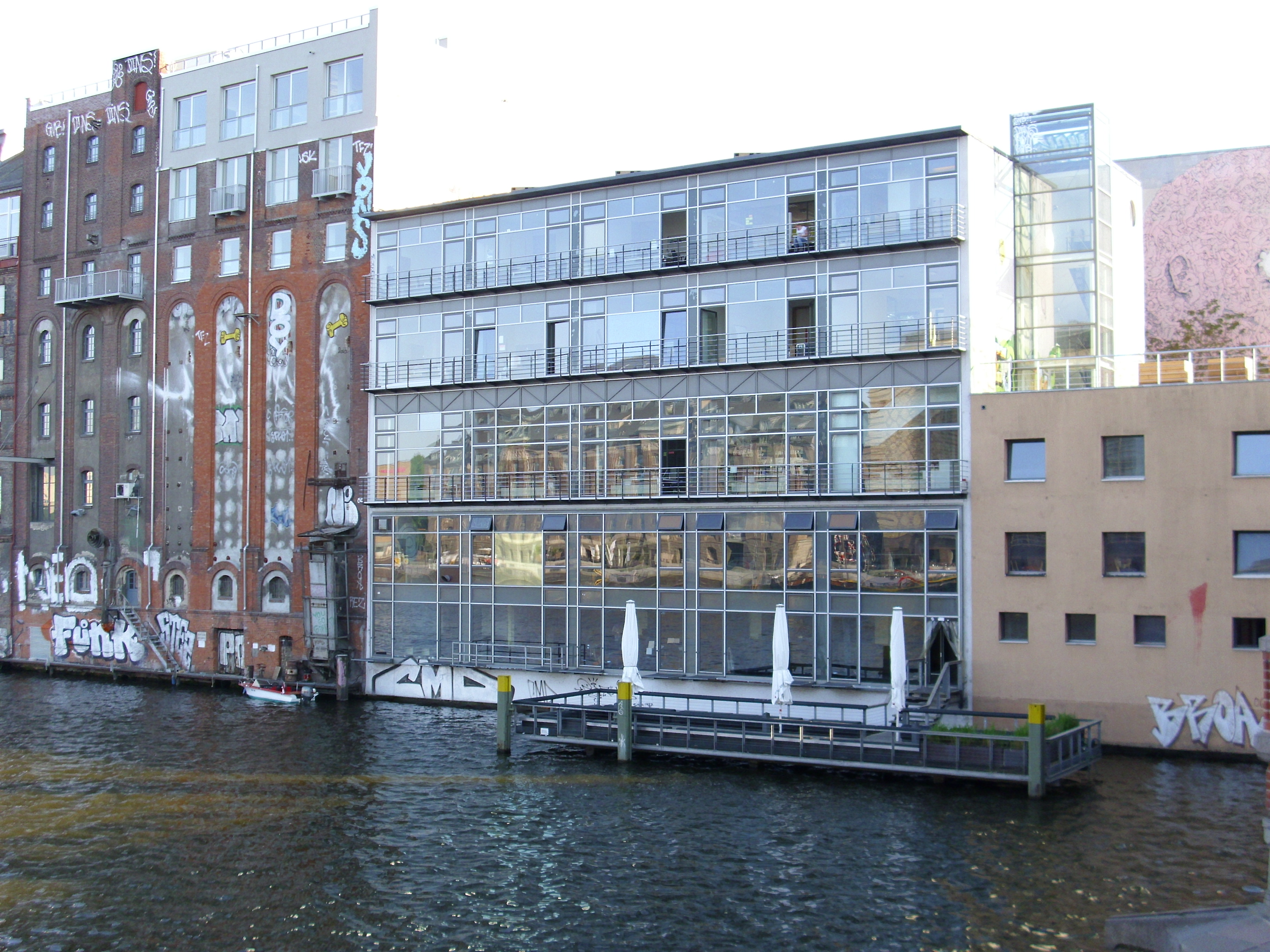 Nightclub "Watergate" in Berlin-Kreuzberg